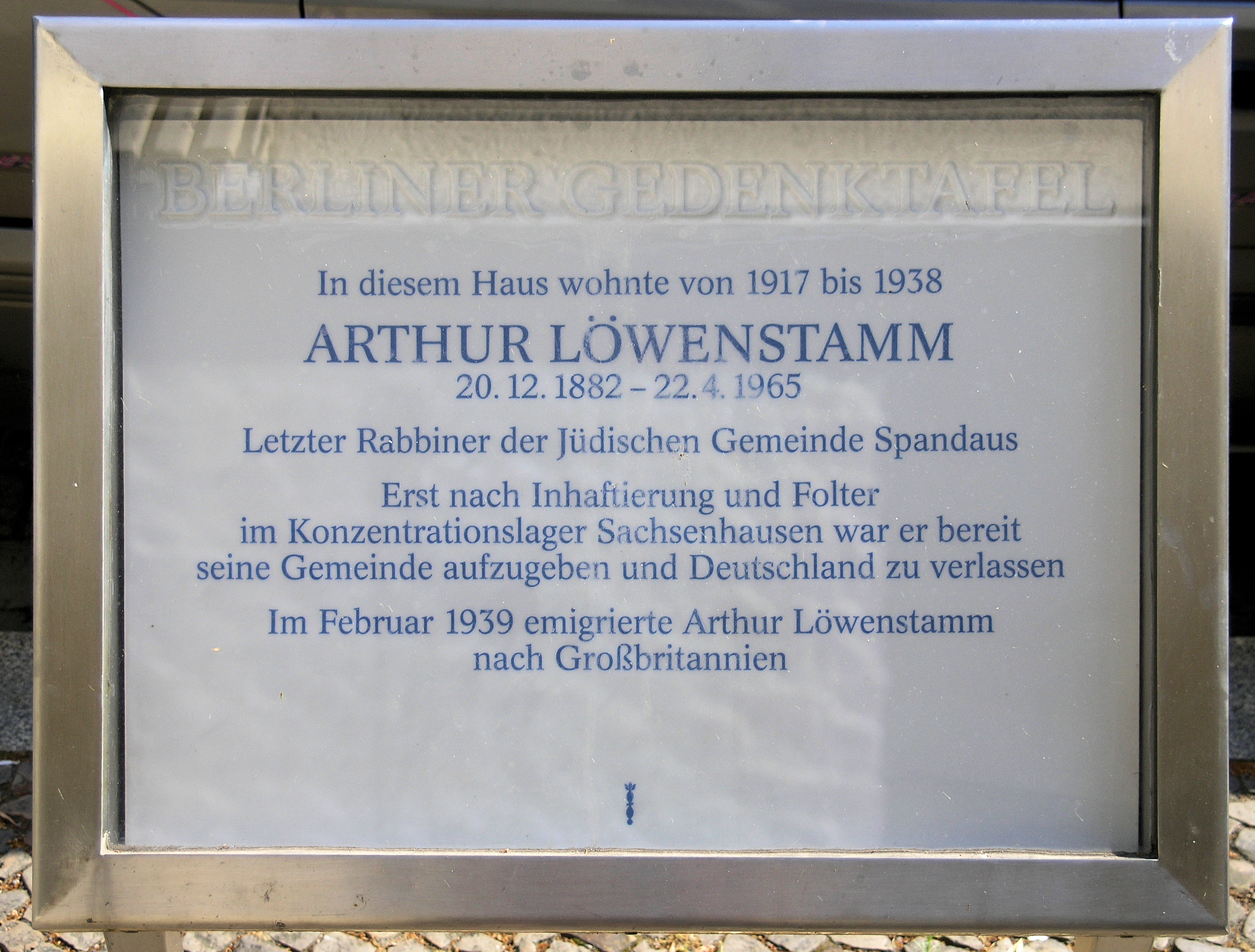 Berlin memorial plaque, Arthur Löwenstamm, Feldstraße 11, Berlin-Spandau, Germany